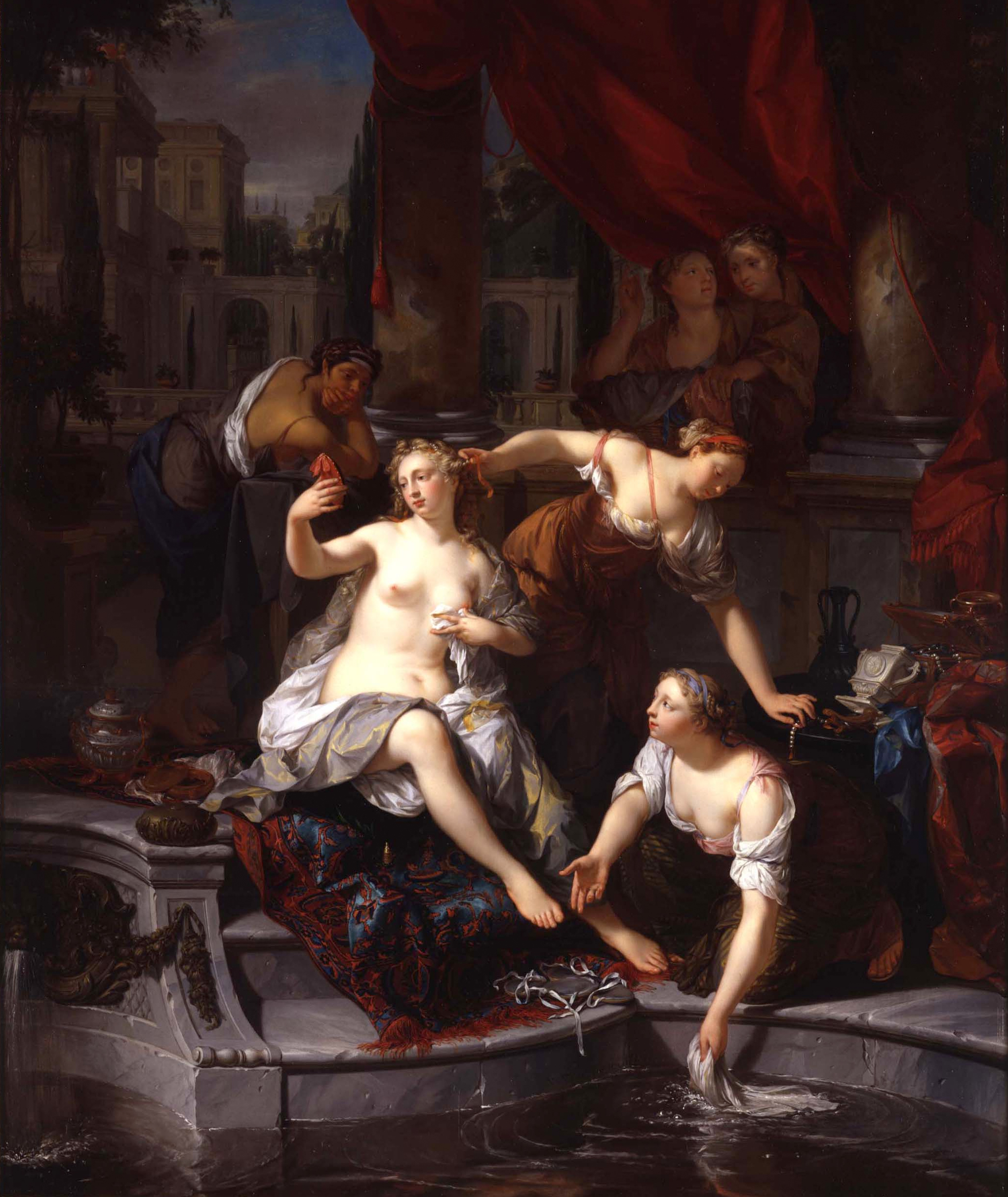 David, from the roof (or balcony) of his palace, sees Bathsheba bathing